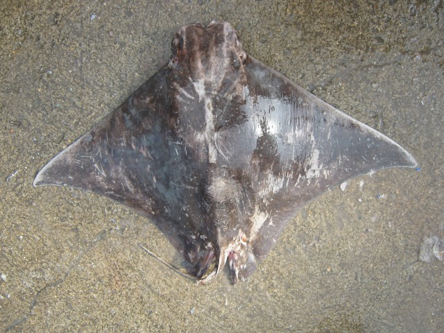 Rhinoptera javanica